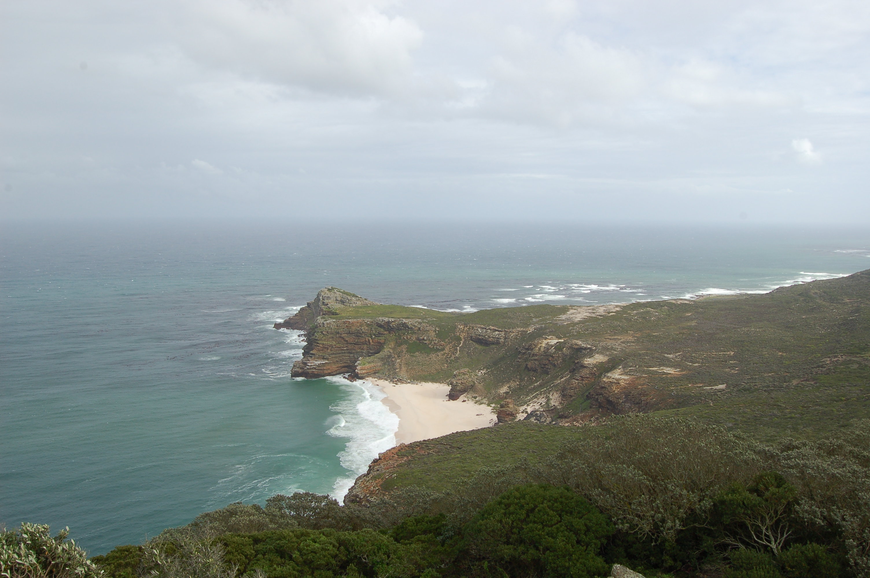 Cape of Good Hope, South Africa